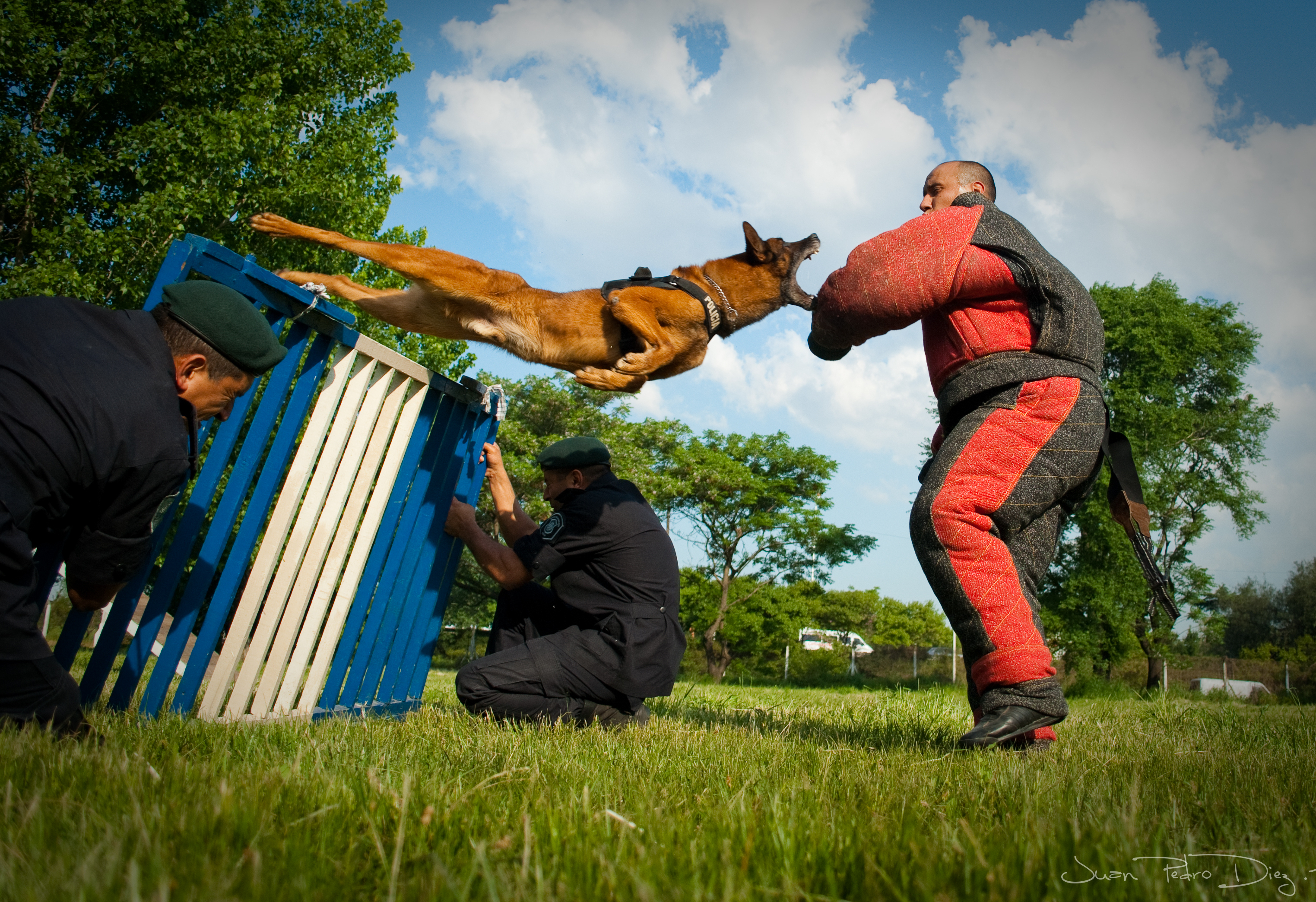 Kintín realizando un ataque con salto. Feel free to use this image but please link to for credits